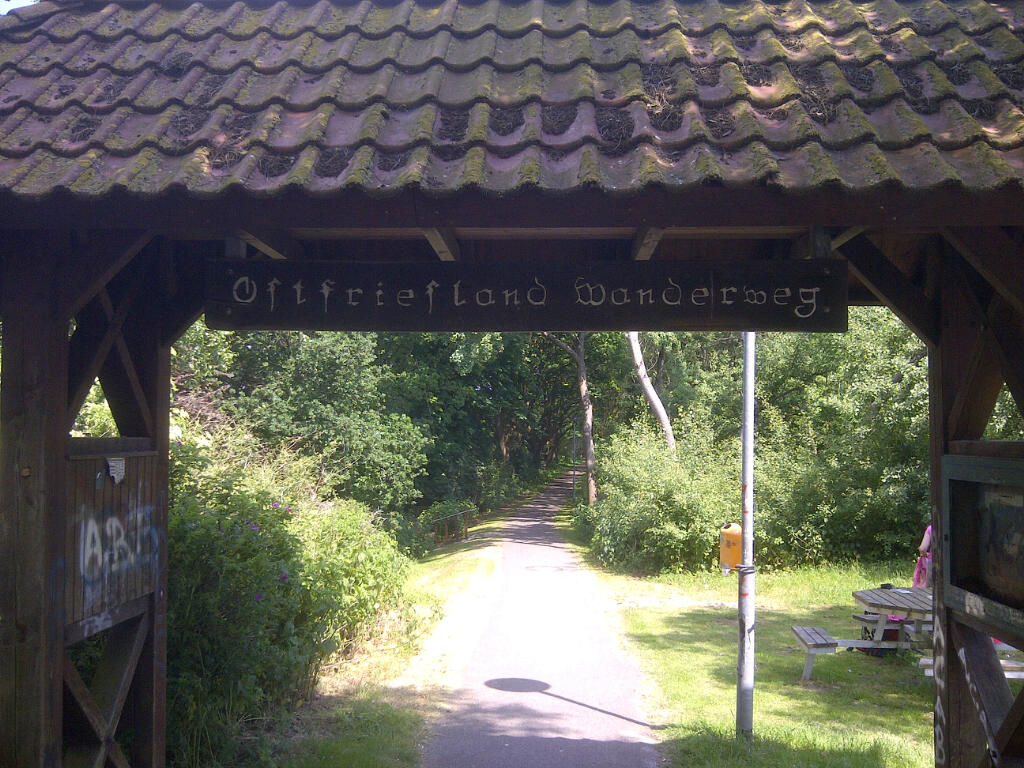 A portal of the Ost Friesland weg in Leer